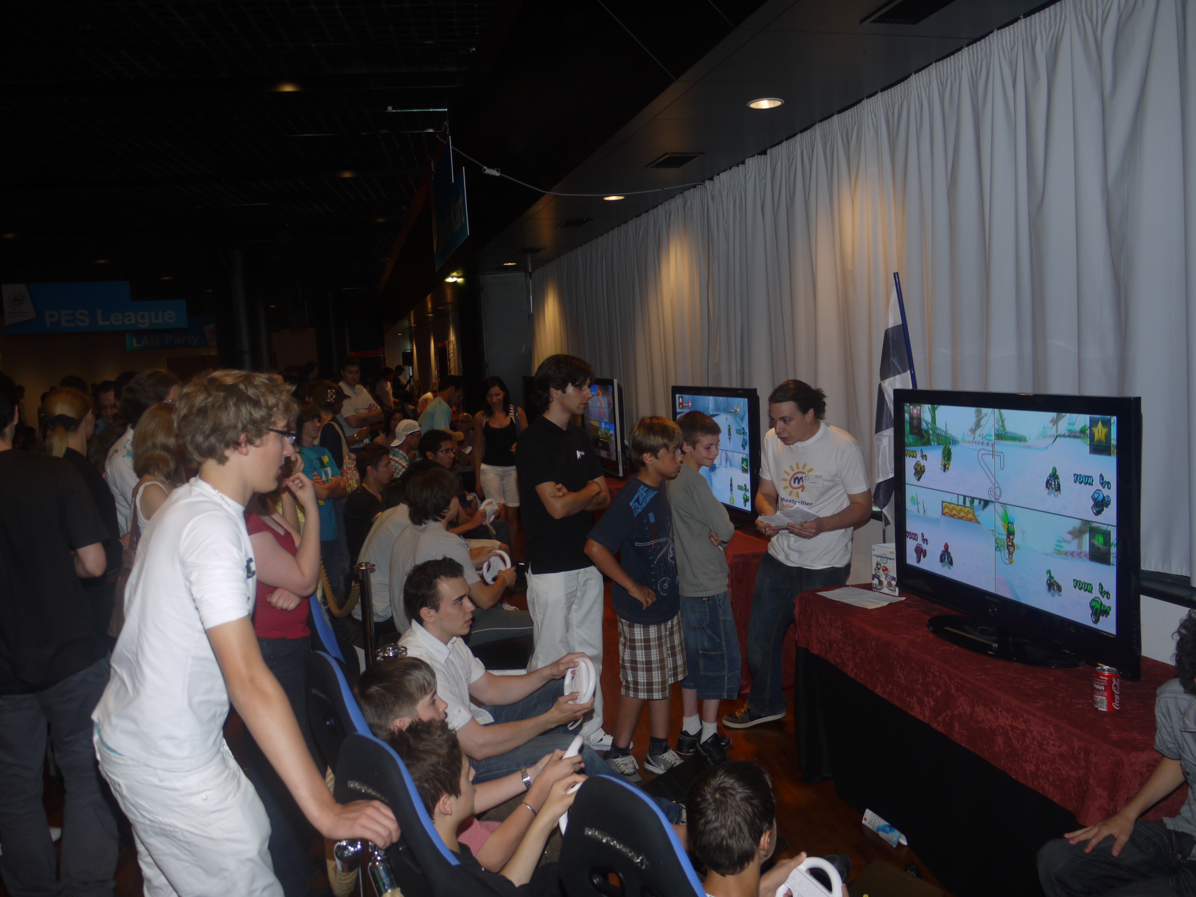 Montpellier in Game Festival 2010